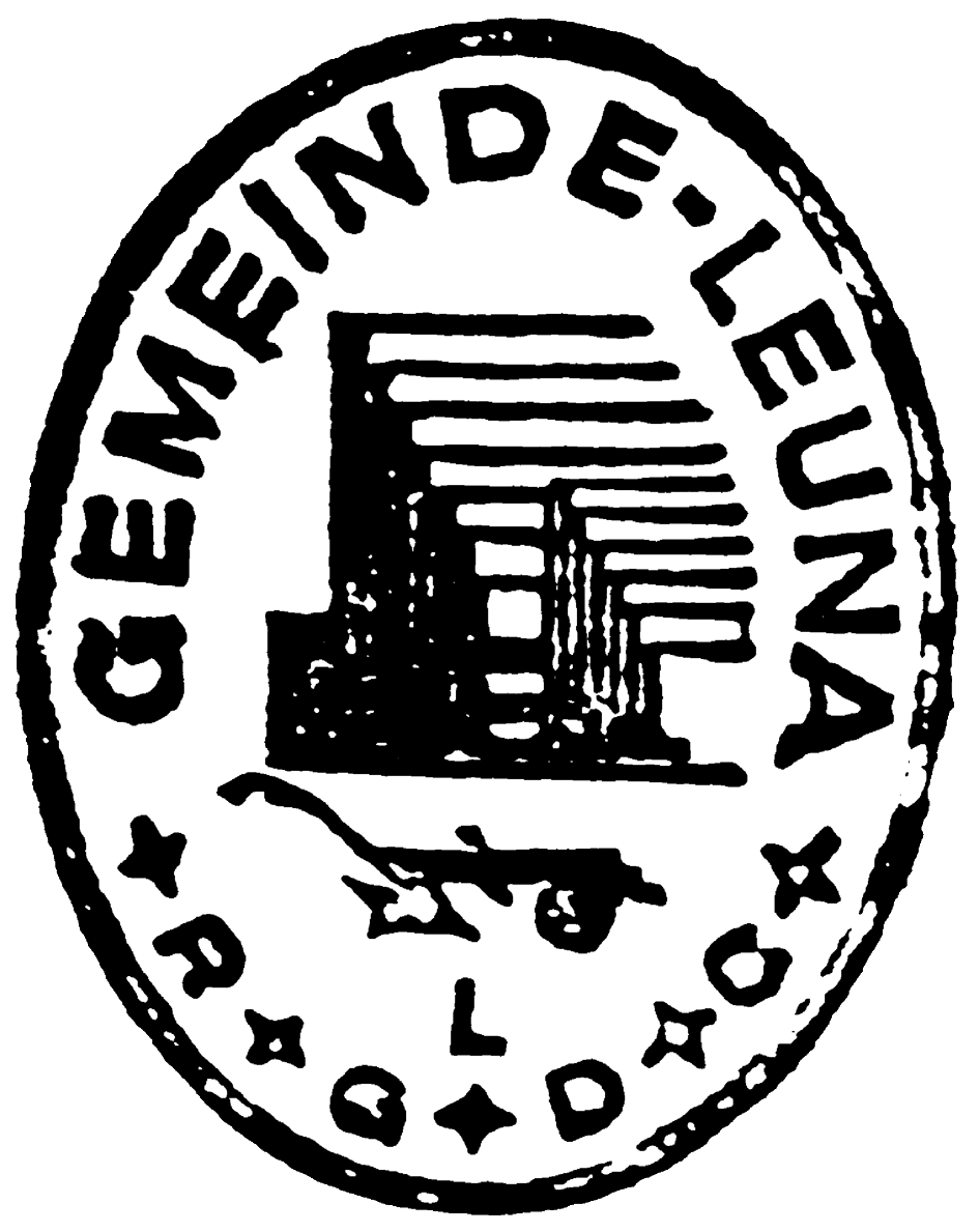 Former Seal of Leuna